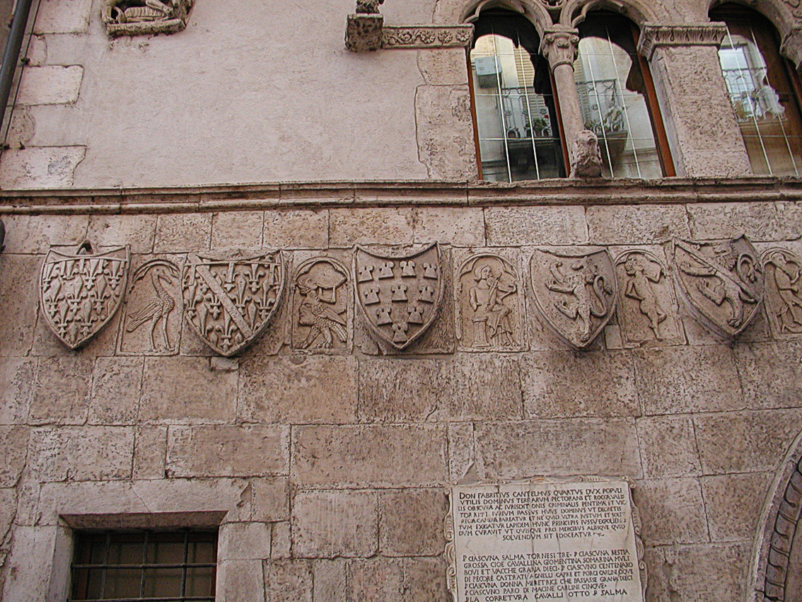 Taverna Ducale